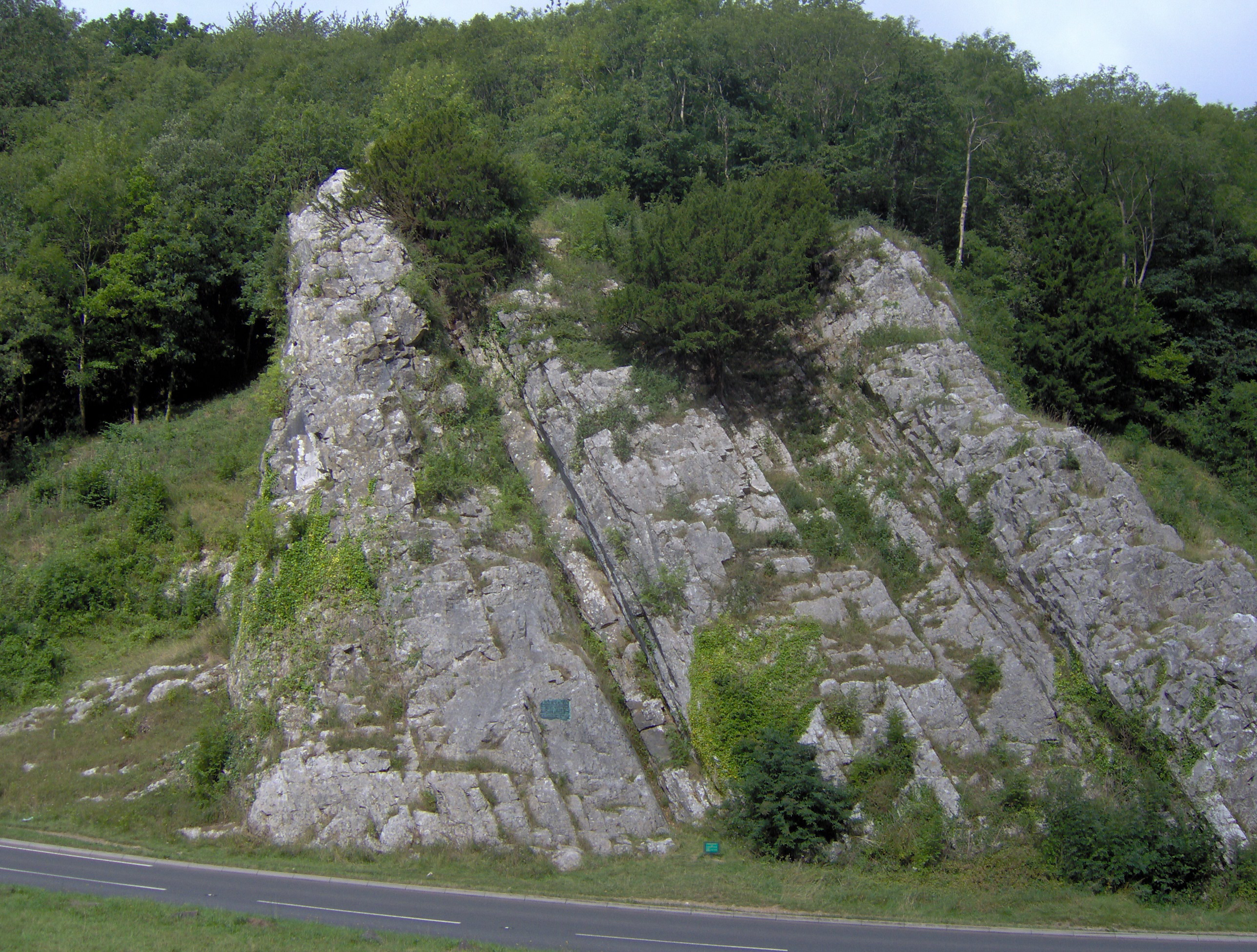 Rock of Ages, Burrington Combe. Taken by Rod Ward 15th August 2006